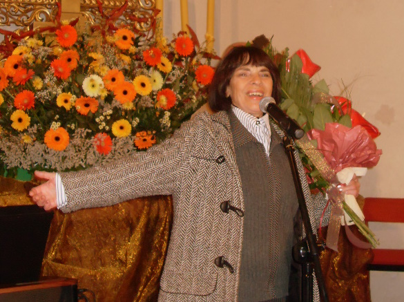 Sława Przybylska in Dygowo